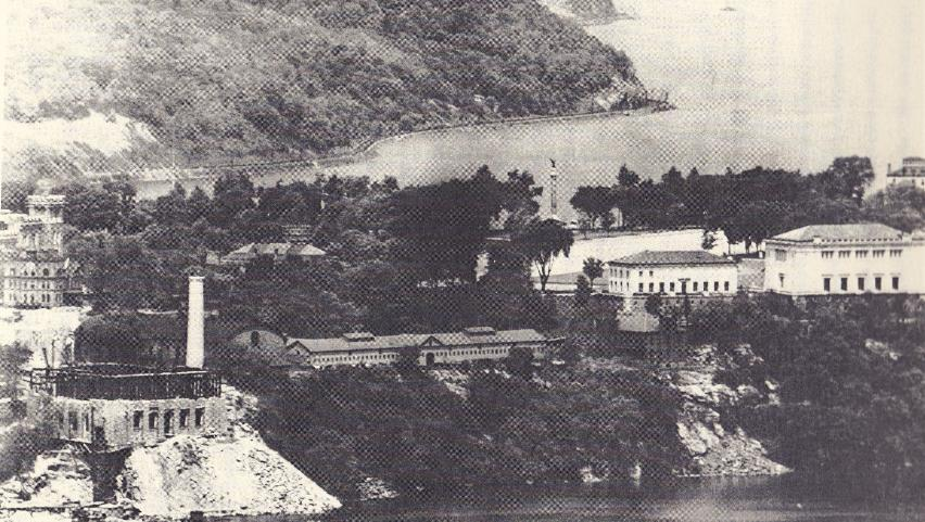 aerial view of the United States Military Academy at West Point, 1907. From left to right can be seen: Pershing barracks & its clock gower, the old Headquarters building (now demolished), the powerplant (under construction), the old riding hall (now demolished), the old library (now demolished), Battle Monument, the officer's mess (now expanded and called the West Point Club), Cullum Hall, and the West Point Hotel (now demolished).